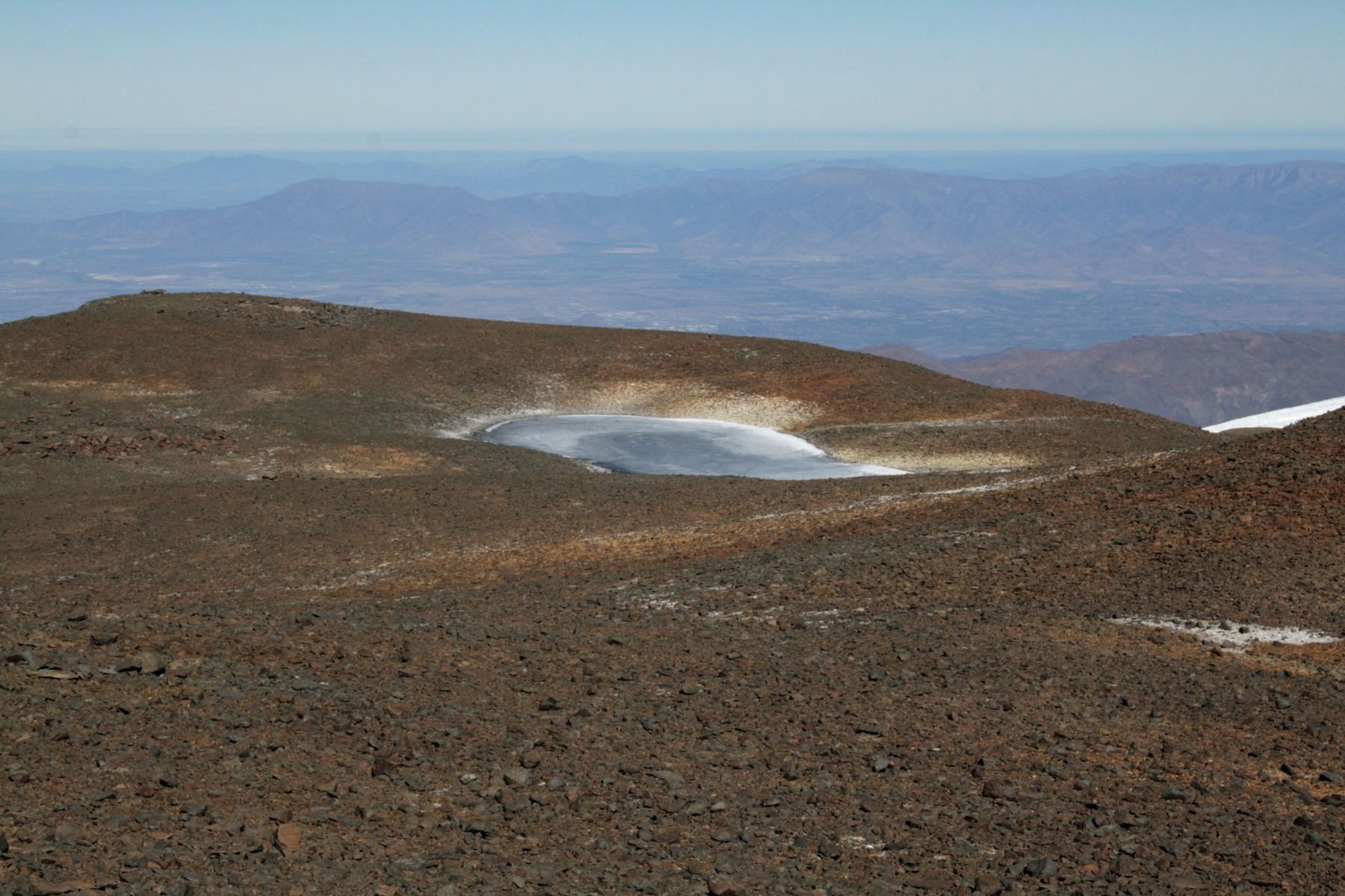 Frozen lake at the El Plomo summit range